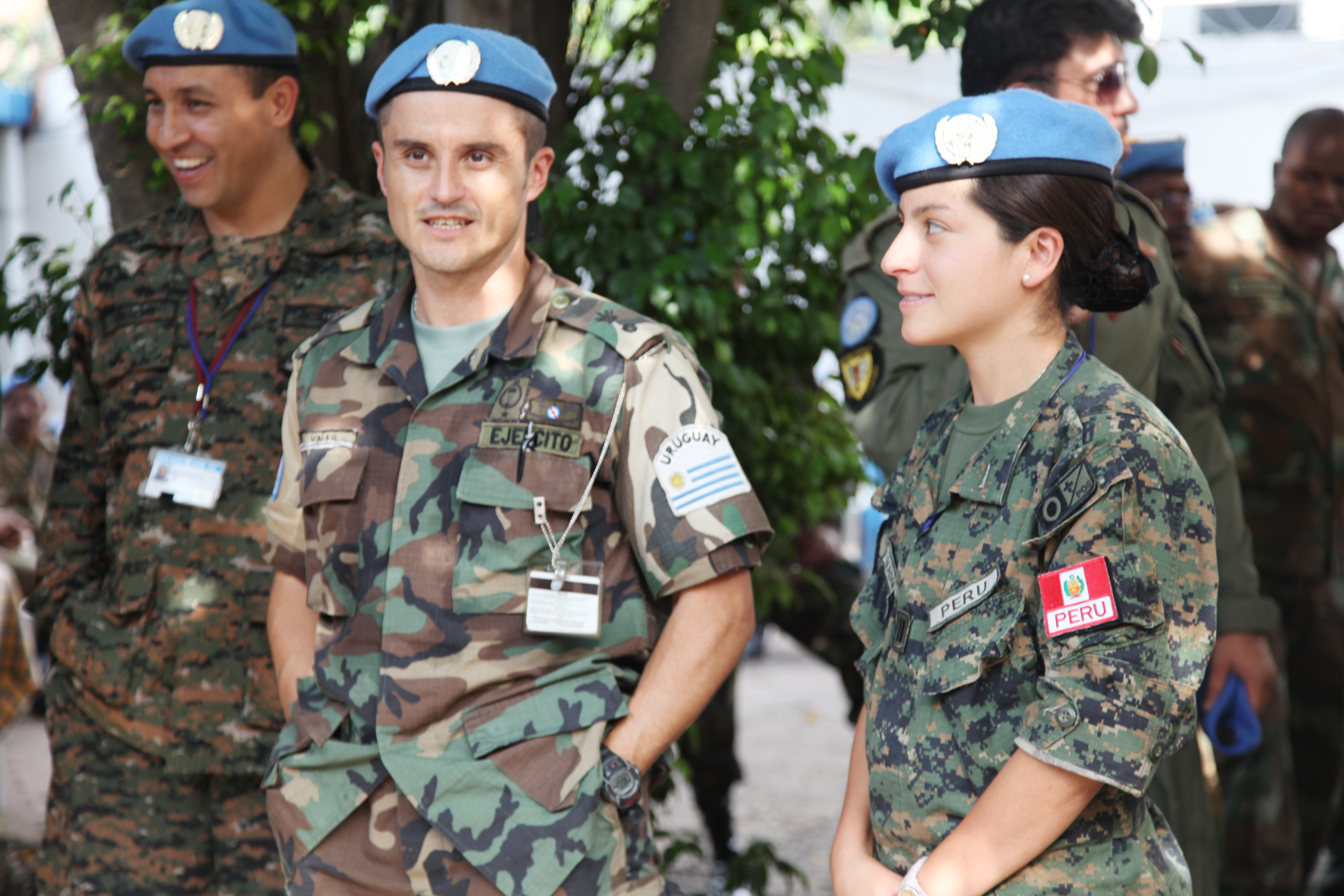 Soldiers from Uruguay and Peru at the farewell for Force Commander Prakash in Kinshasa HQ.